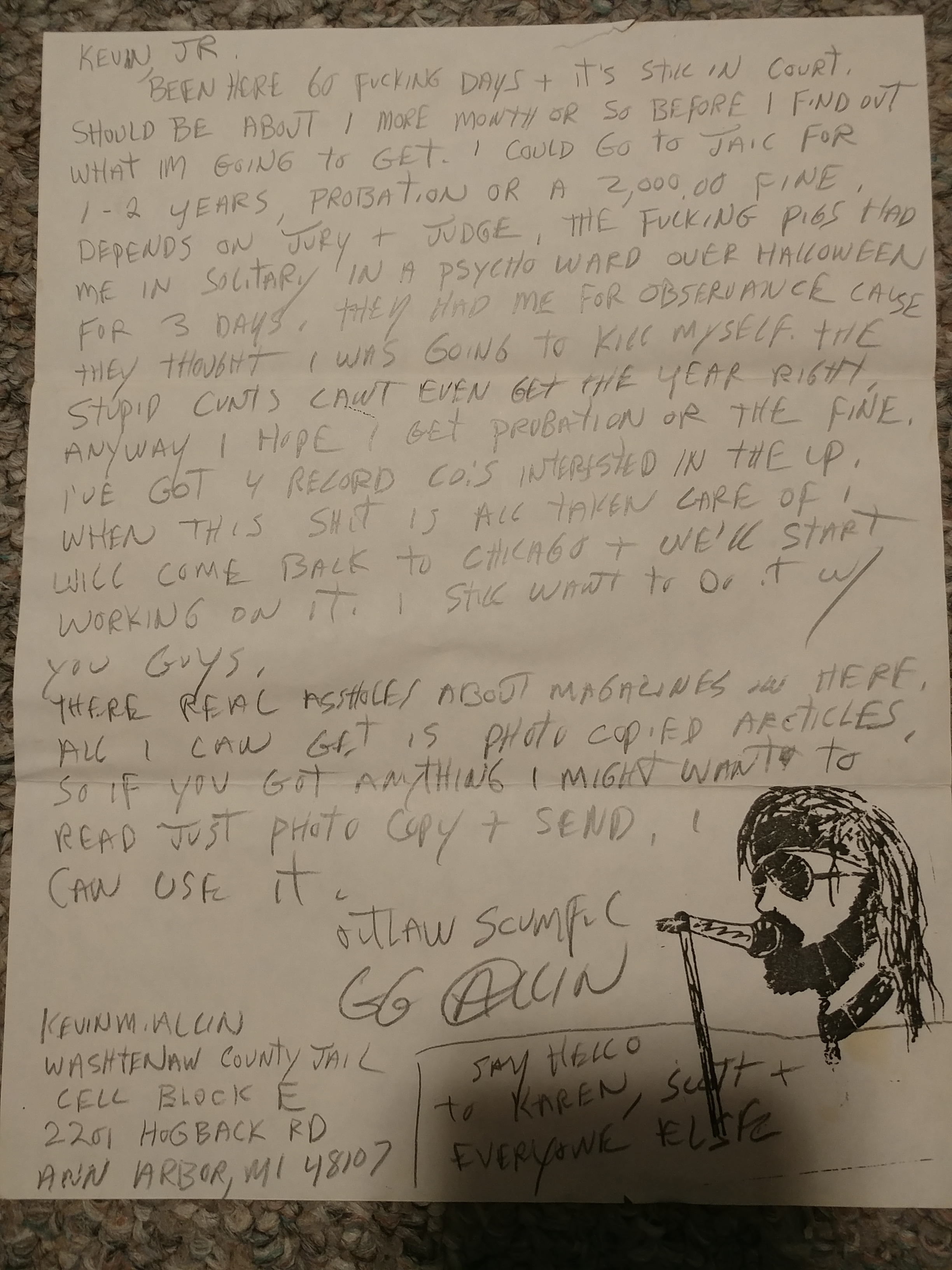 Was in already 60 days